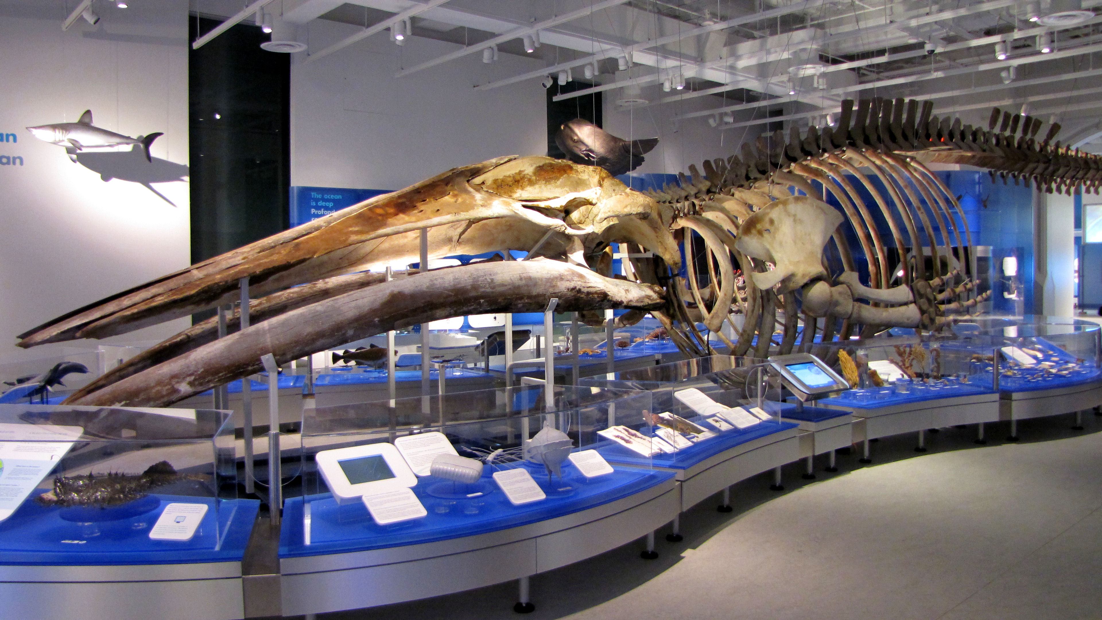 Blue whale (Balaenoptera musculus) skeleton, Canadian Museum of Nature, Ottawa, Ontario